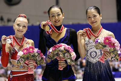 The ladies podium at the 2013 NHK Trophy. From left: Elena Radionova(2nd), Mao Asada (1st), Akiko Suzuki (3rd).